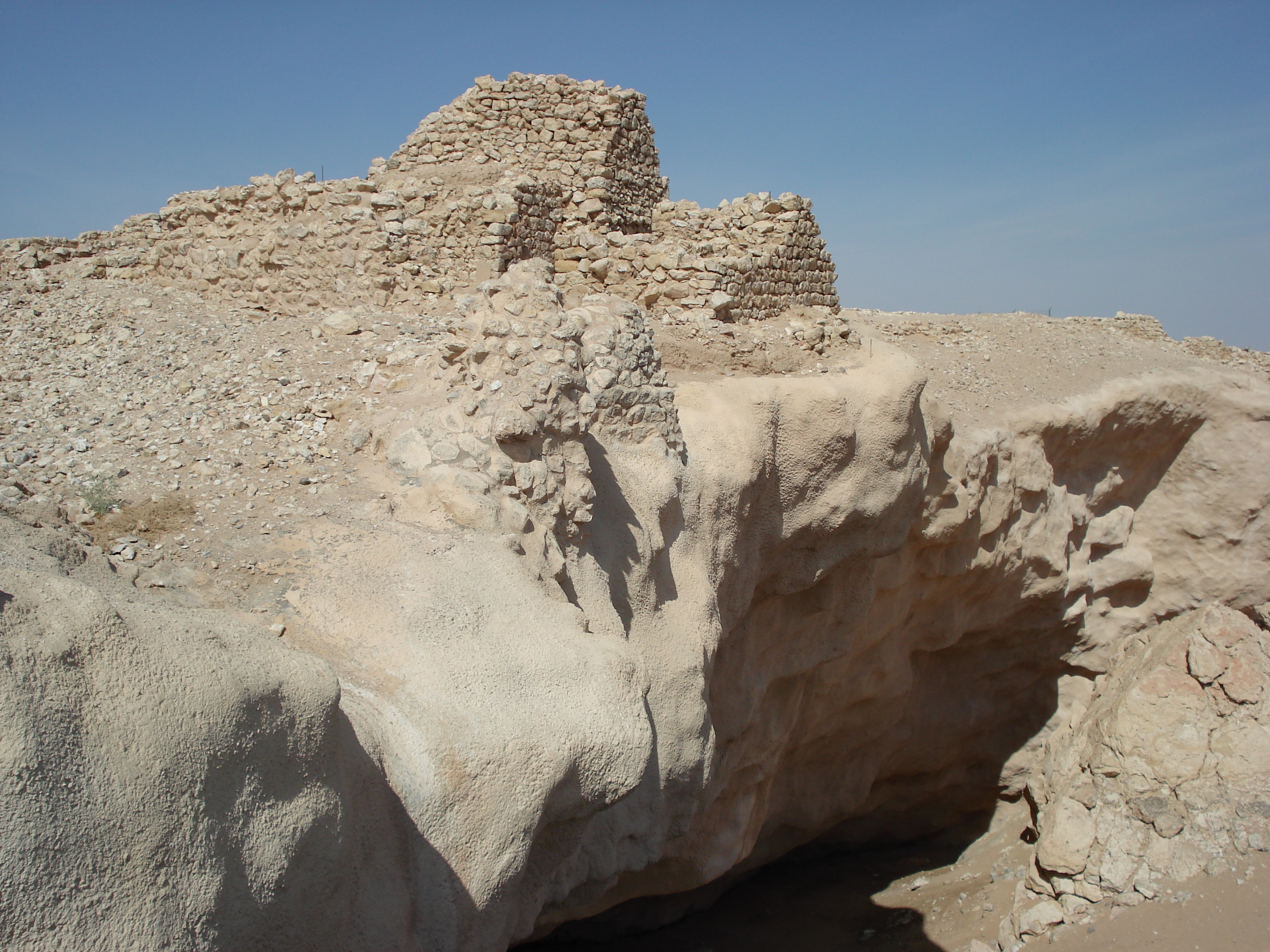 9591353082 is the author.